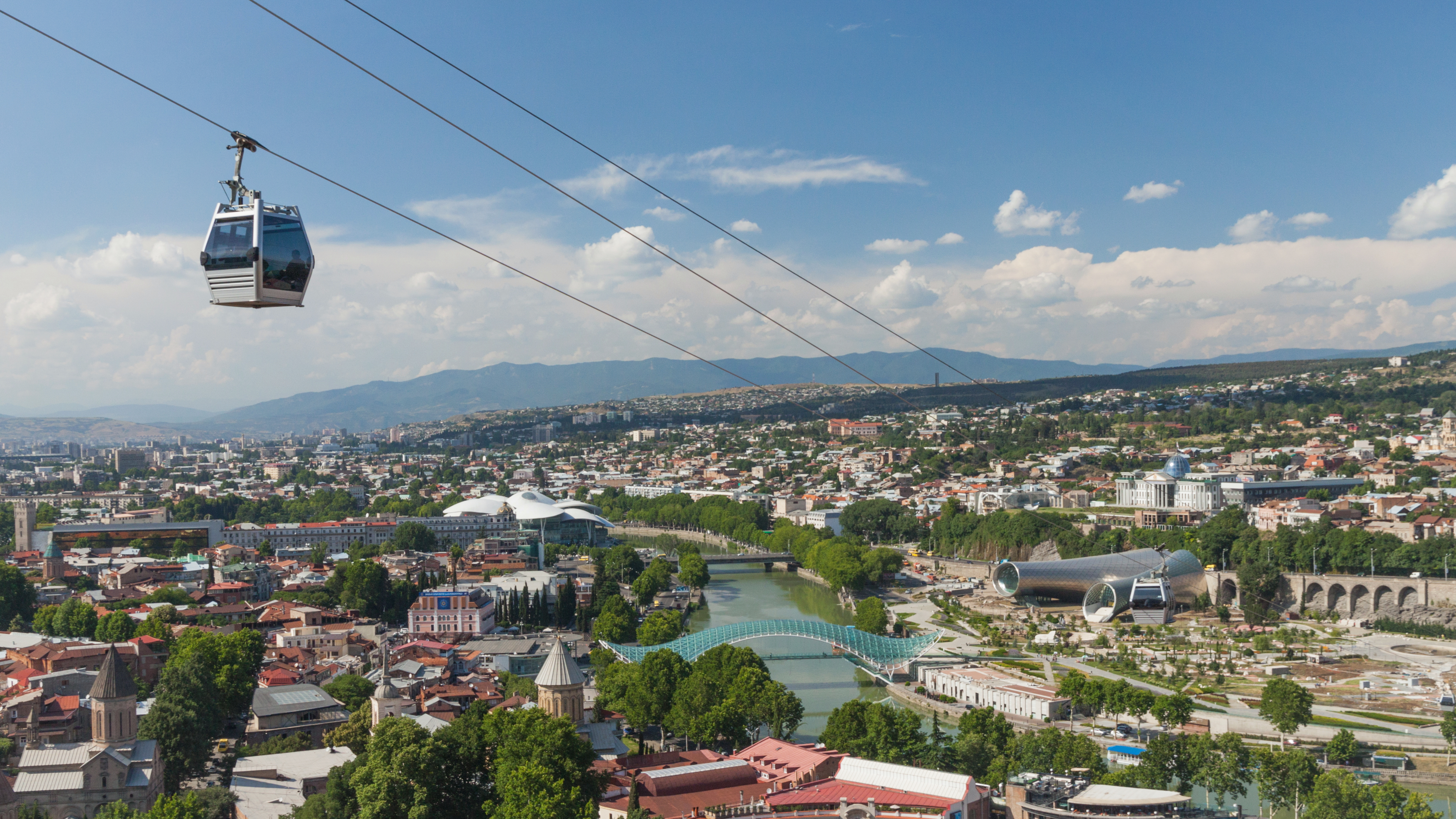 The views from the Narikala fortress. Tbilisi, Georgia.